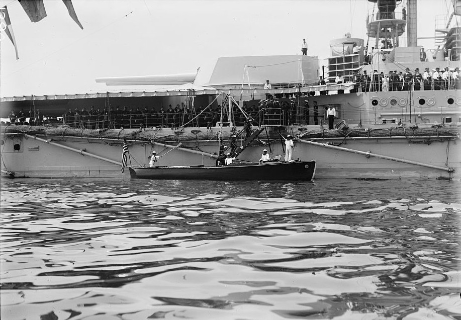 U.S. Navy officers going aboard the German battlecruiser SMS Moltke at Hampton Roads, Virginia (USA), on 3 June 1912.